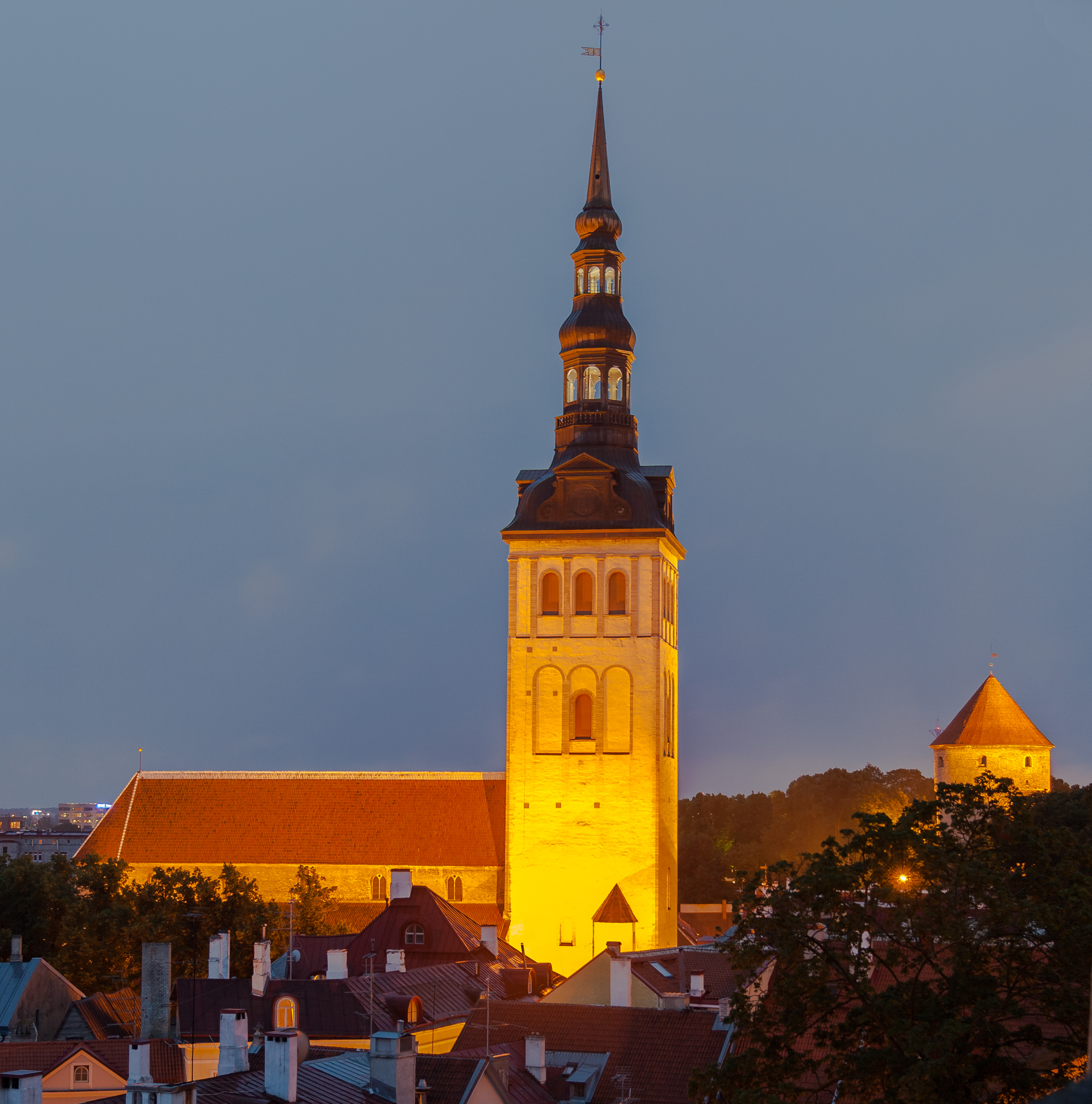 St. Nicholas' Church, Tallinn, Estonia